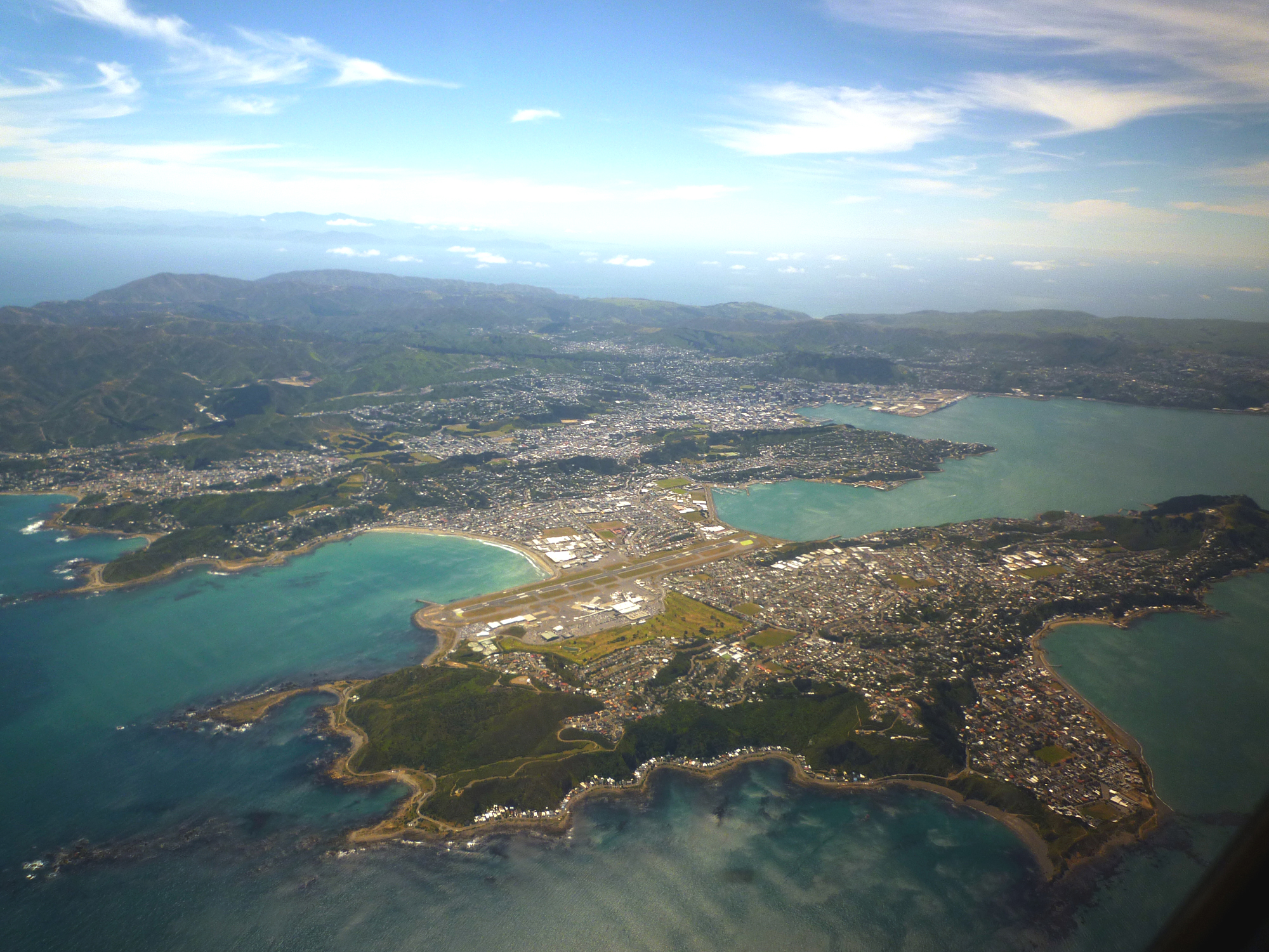 Aerial view of the Miramar Peninsula, Wellington, New Zealand. Wellington International Airport is visible and the beach just above the left-hand end of the runway is Lyall Bay. Downtown Wellington city, the harbour and port can be seen in the distance.